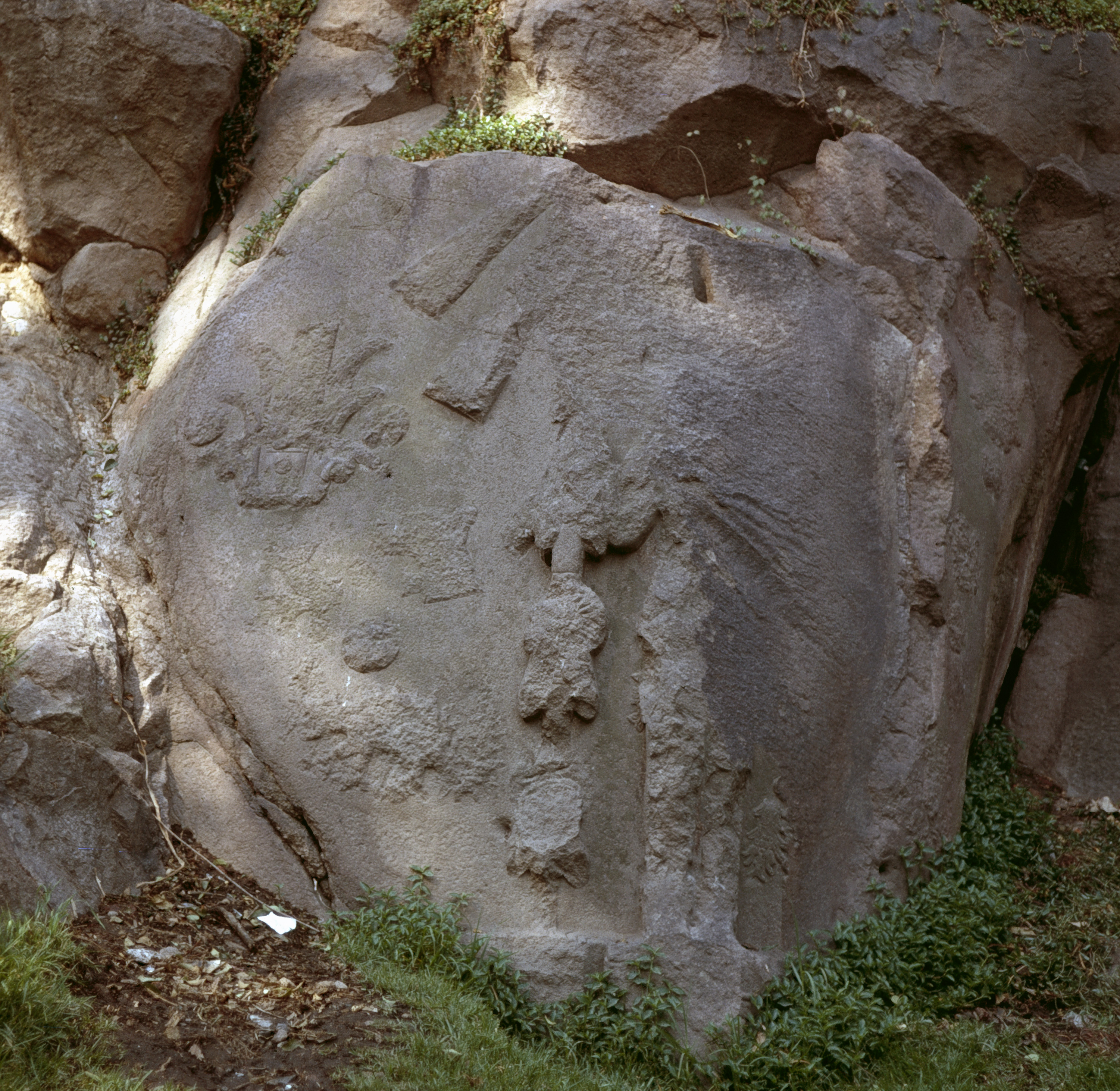 Chapultepec, México D.F. Mexico: Vestiges of the rock sculpture of Moctezuma II